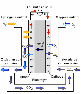 A MCFC diagram based on the English one (in WP en) in order to be include in the "Pile à combustible à carbonate fondu" in WP fr